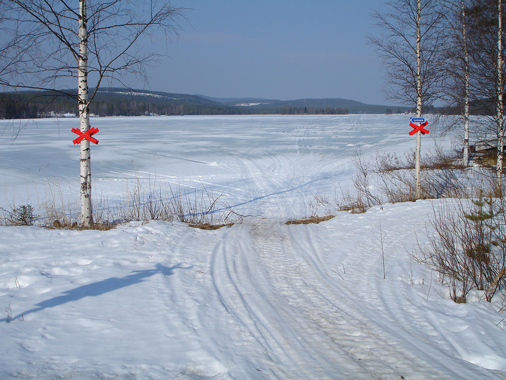 Lake Gäddträsket viewed from the south with the snowmobile trail to Lycksele.